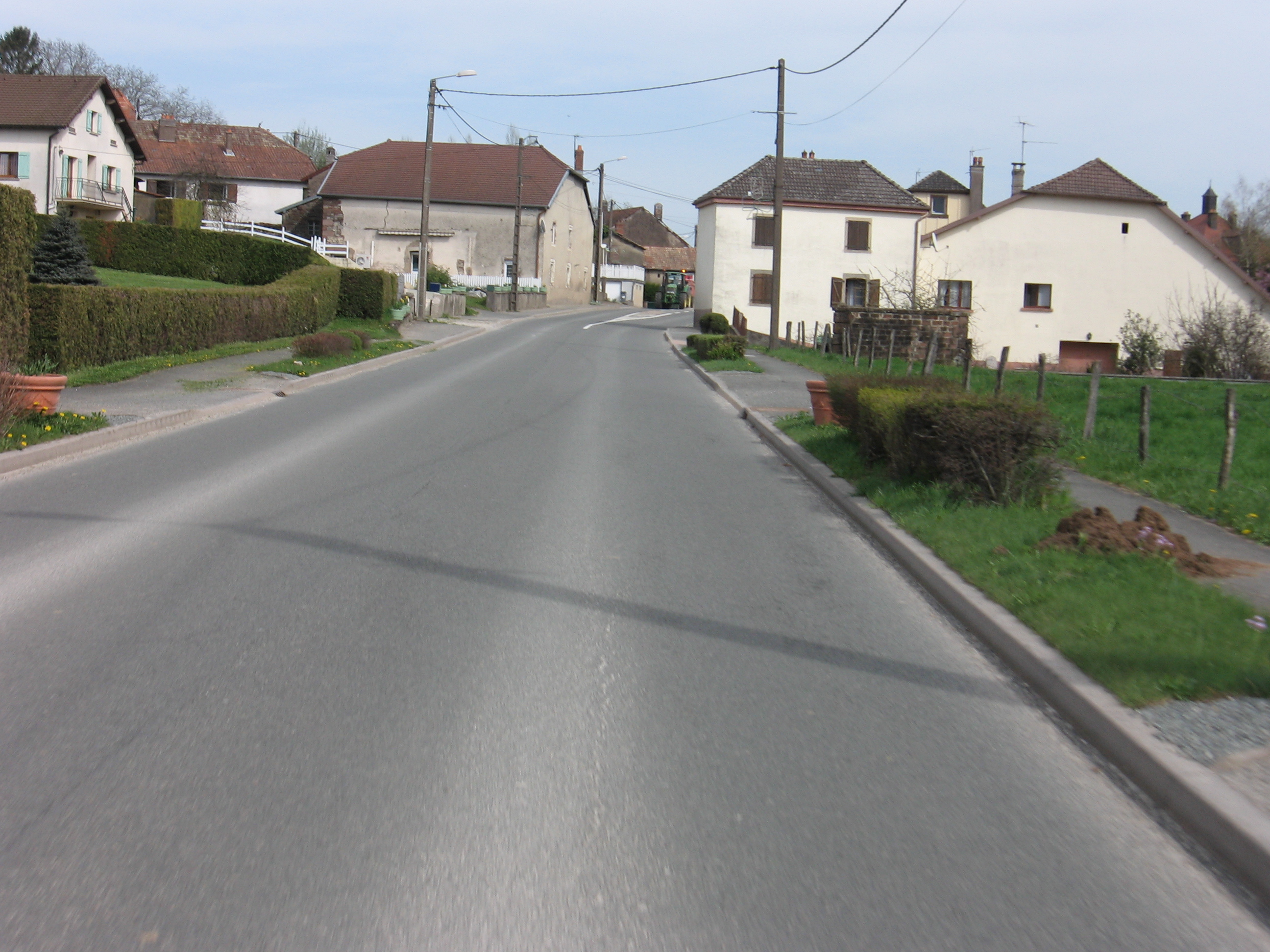 Crevans